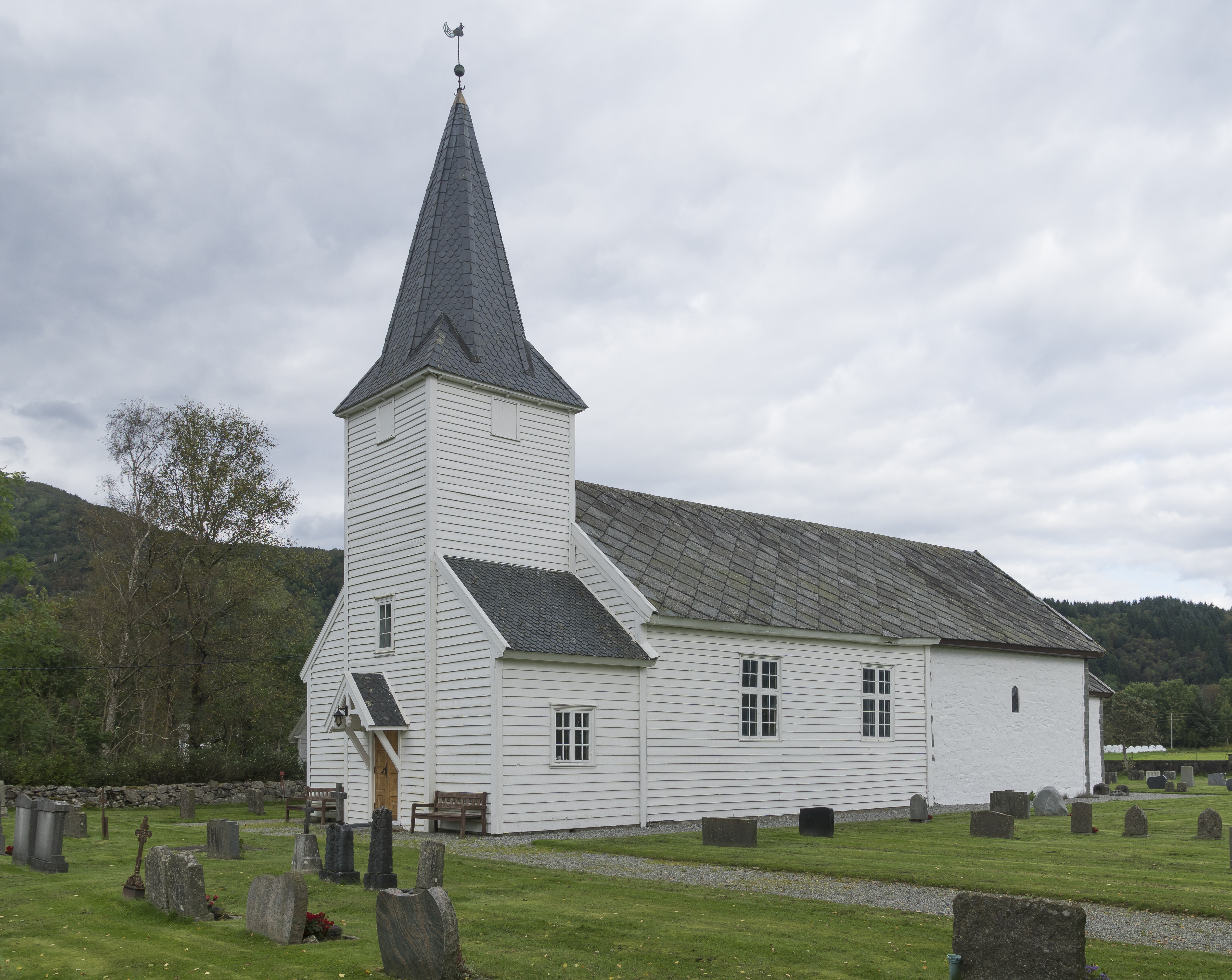 Stødle church in Etne, Hordaland, Norway.